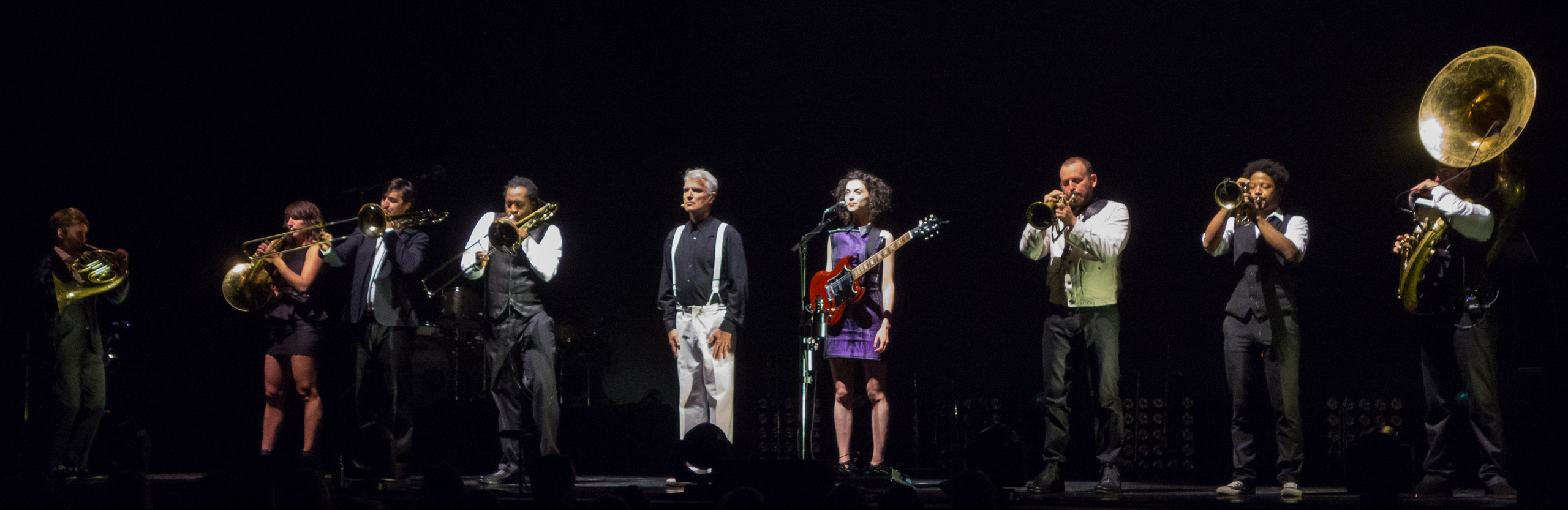 David Byrne and St. Vincent at the 5th Ave Theatre in Seattle